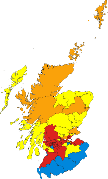 The notional results of the 2007 election, based on the new boundaries of 2011